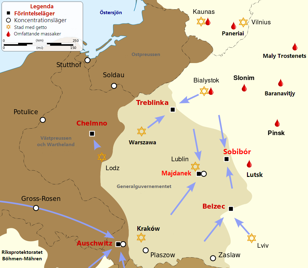 Map of the Holocaust in Poland during World War II, 1939-1945. Derivate work: Map in Swedish by User:Disembodied Soul